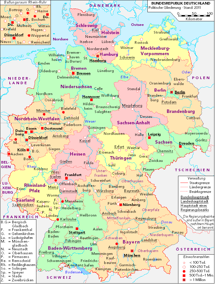 Political map of Germany